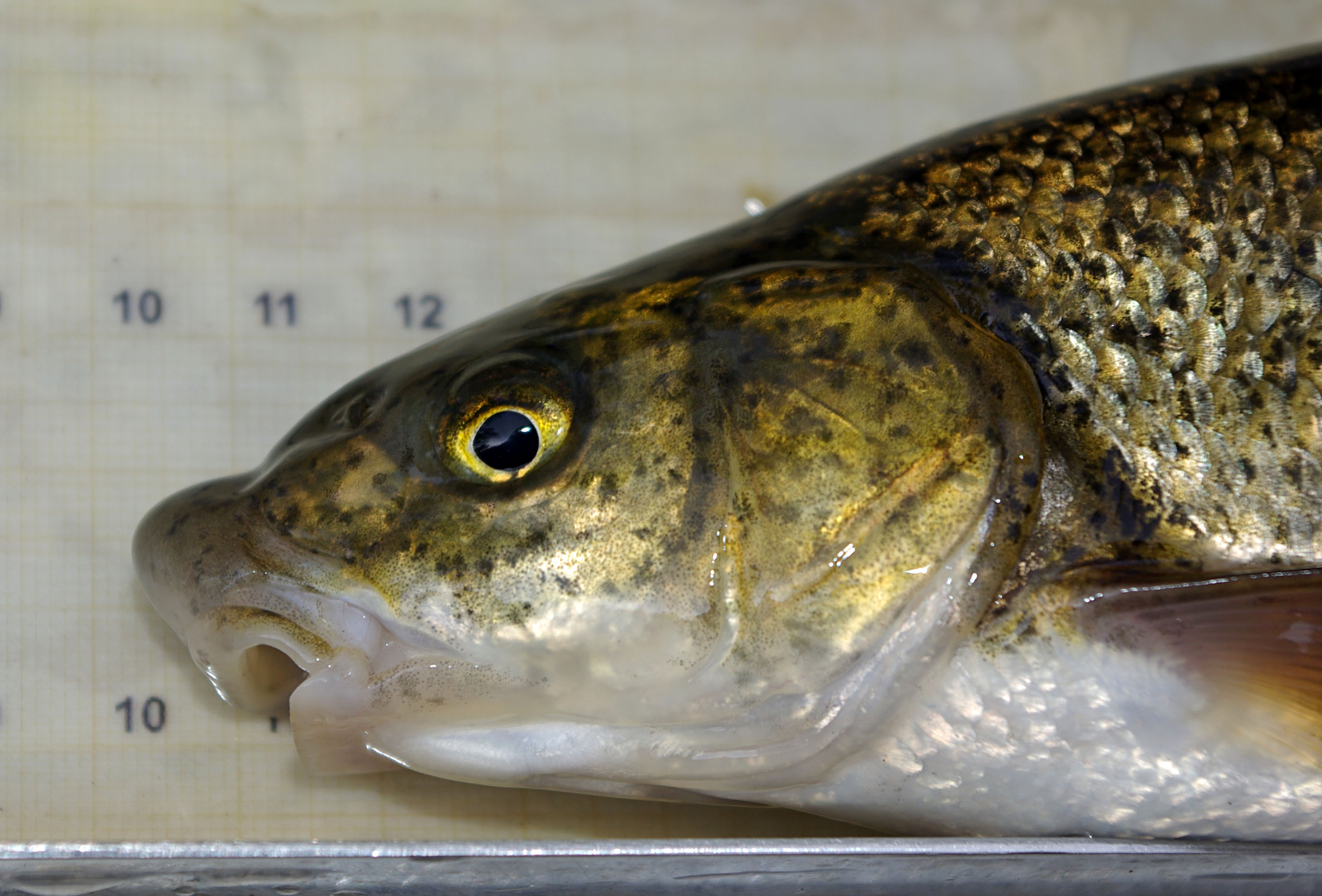 Head detail of northern straight-mouth nase (Pseudochondrostoma duriense) in river Bernesga, León, Spain